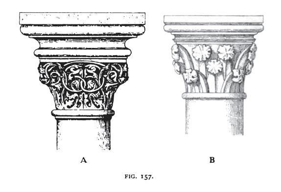 Fig 157 -Capitals, Cathedral of Magdeburg, Development & Character of Gothic Architecture (1890)